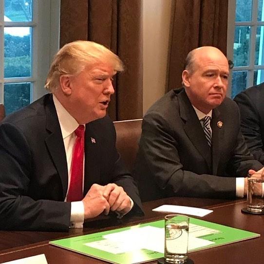 "Yesterday, several of my colleagues and I met with President Trump on improving our trade agreements with other nations. This is a bipartisan issue where I believe we can make a real difference."